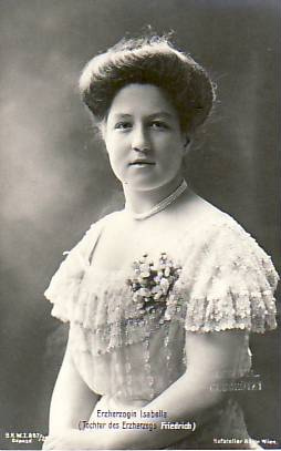 Isabella, Archduchess of Austria-Teschen (1887–1973)